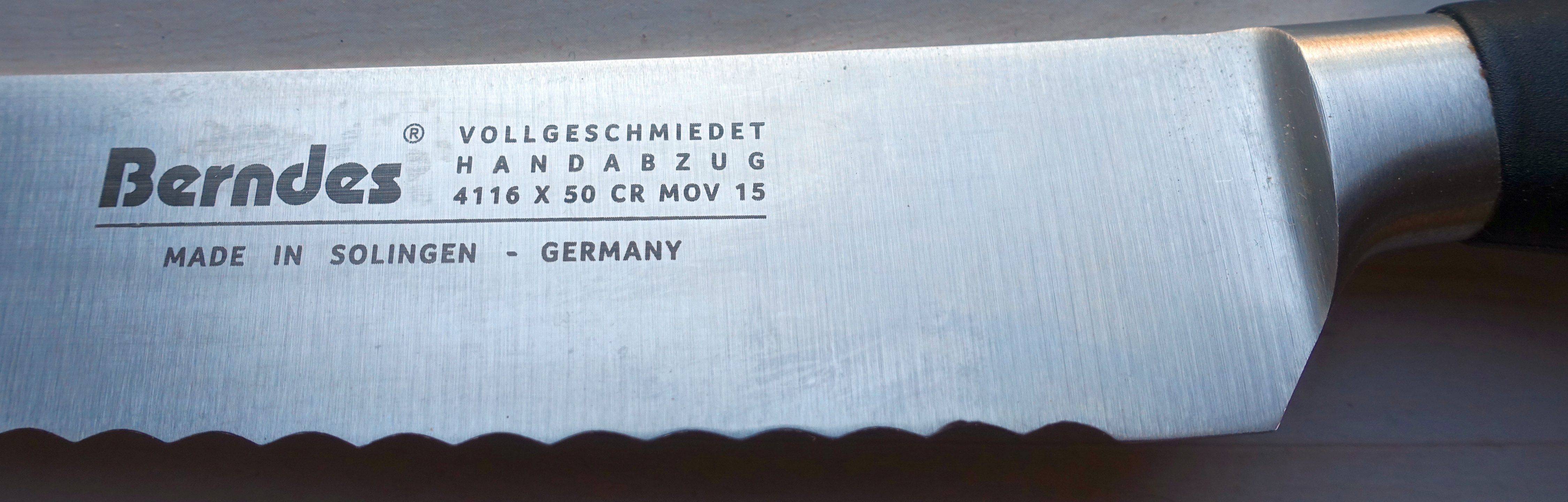 Blade marking on a bread knive made in Solingen